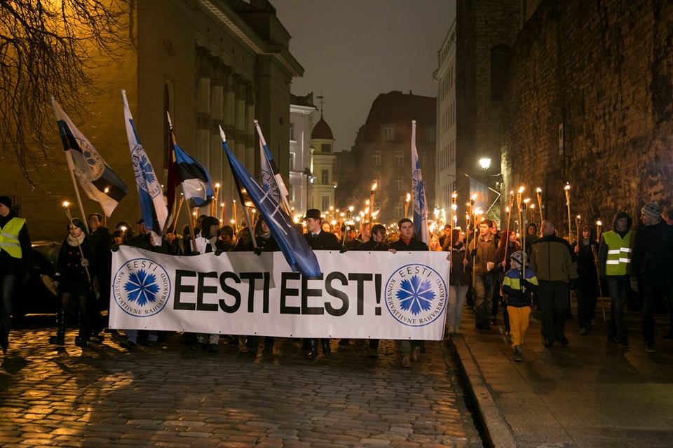 Estonian nationalists on the annual march through the Old Town of Tallinn